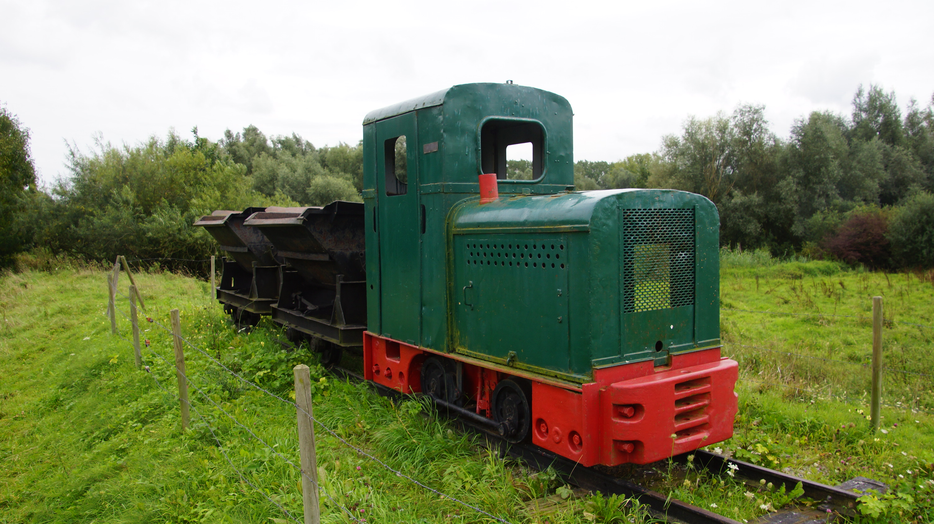 Narrow gauge locomotive of Spoorijzer N.V., Delft, built in 1956 with the Serial No 1252. Displayed today in Gendt, Lingewaard, Waaldijk.